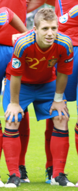 Iker Muniain playing for Spain U-21 NT